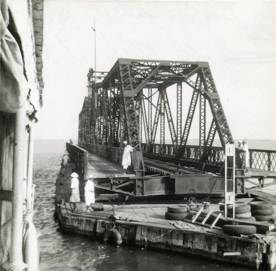 This is the White Nile Road and Railway Bridge swing bridge that was taken early in 1967 during a trip I did up the White Nile. The trip began late in December 1966 in London UK and ended in Durban South Africa early in April 1967.